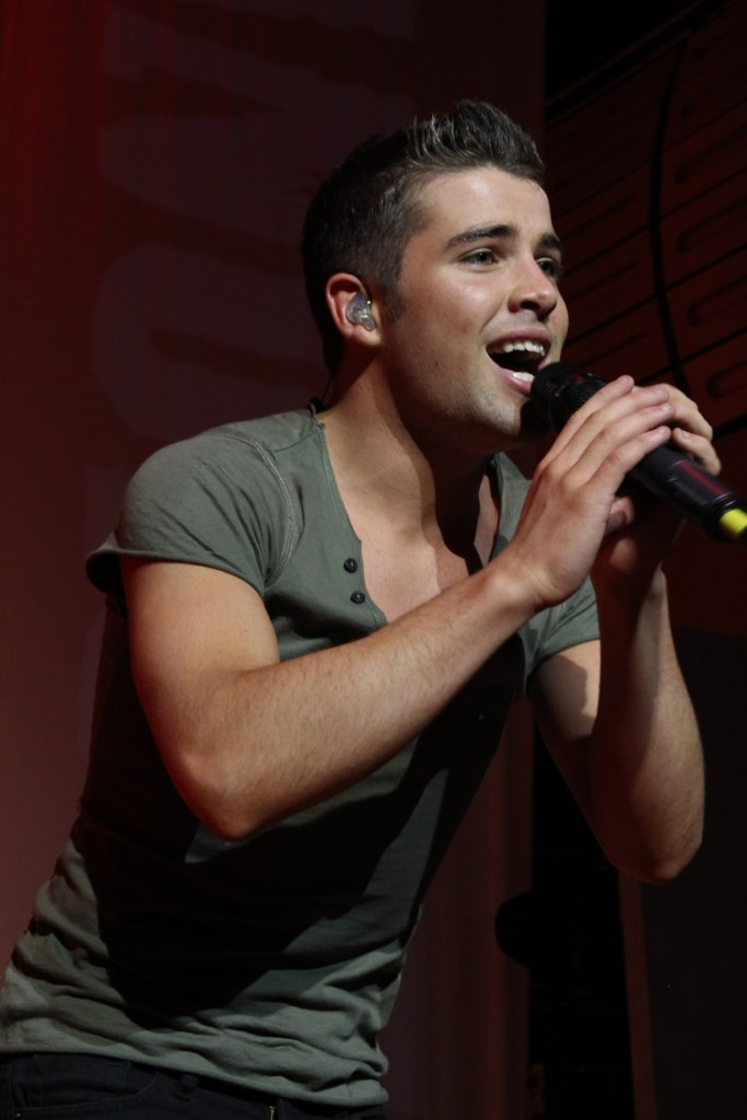 Joe McElderry at the JapaNOISE charity concert at The Sage Gateshead on 25 February 2012